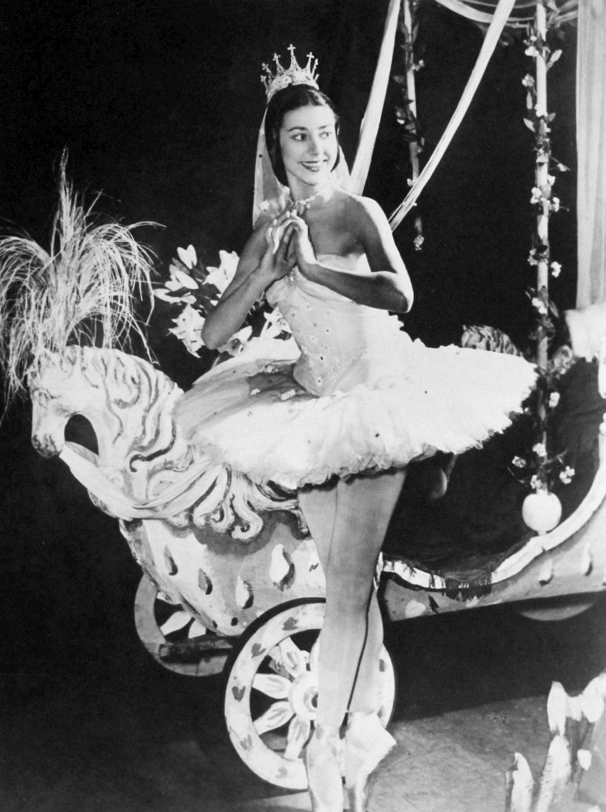 Photo of Margot Fonteyn as Cinderella. The ballet was performed on Producers Showcase.